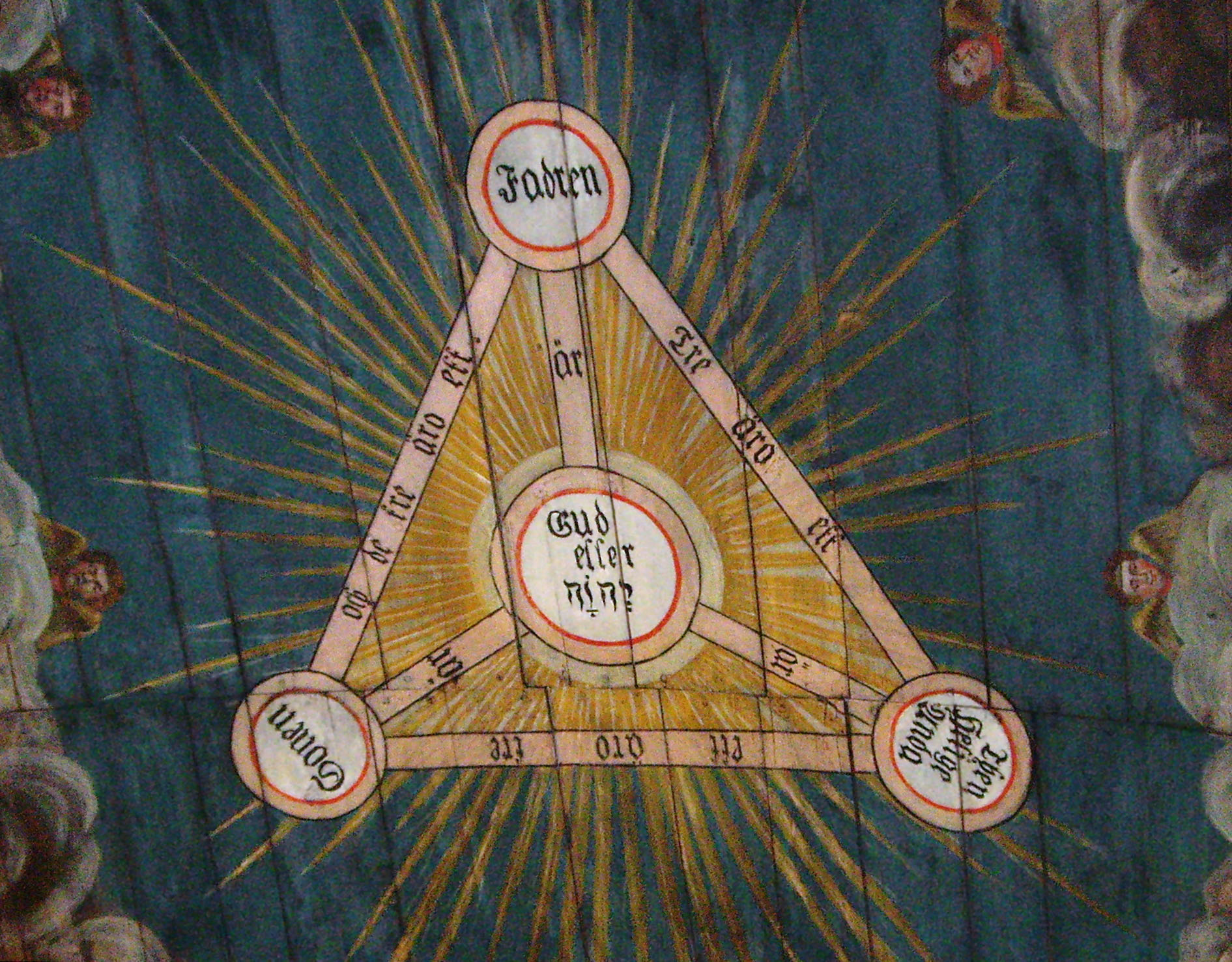 A version of the Shield of the Trinity diagram painted on the ceiling of Landa church, Halland, Sweden in 1804.[1] The central node includes the letters of the Hebrew tetragrammaton YHWH. The three links connecting the three outer nodes include trinitarian doctrinal affirmations (Tre äro ett "Three are one", ett äro tre "one is three", och de tre äro ett "and the three are one") -- rather than words with the meaning "is not" (which are usually included in these positions in other versions of the "Shield of the Trinity" diagram).